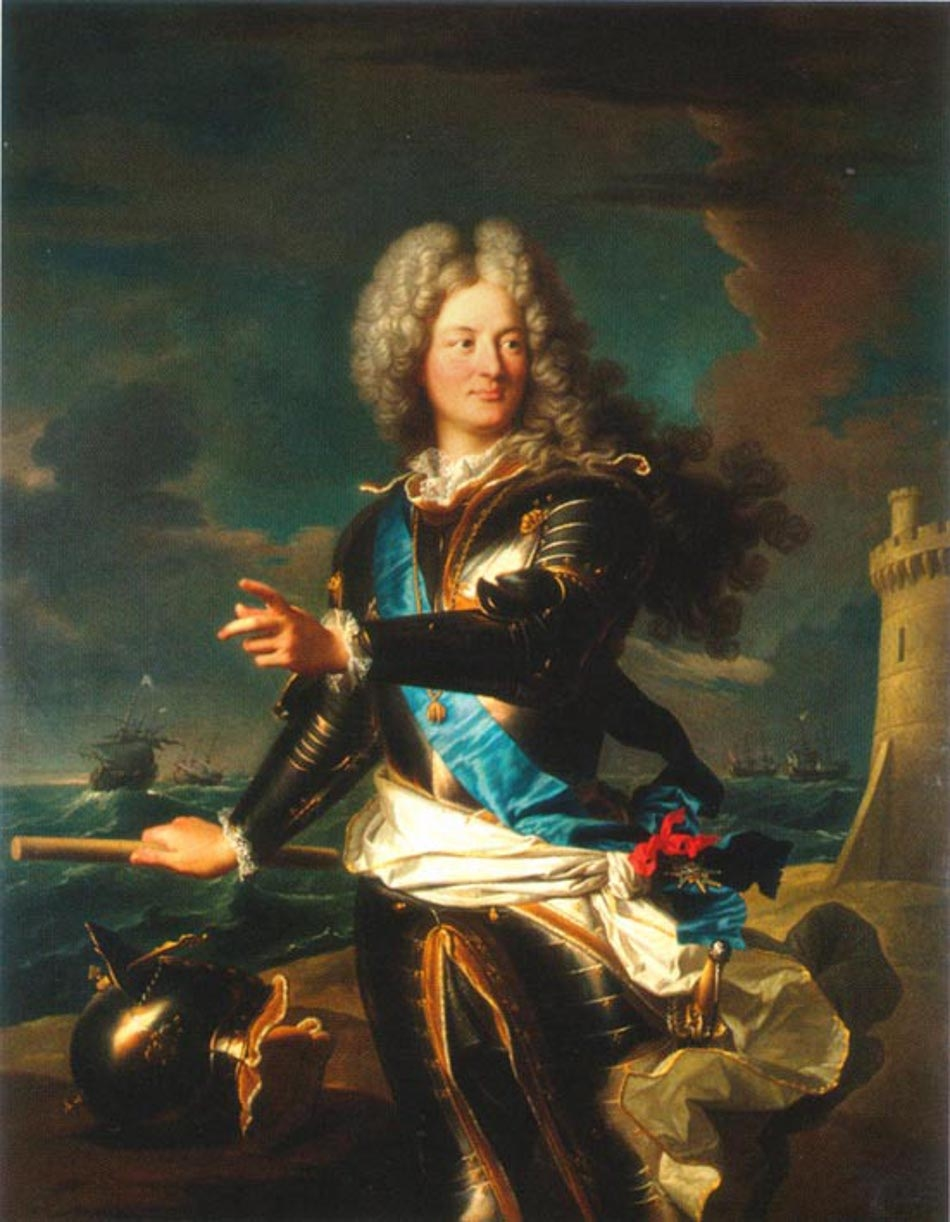 Portrait of Louis-Alexandre de Bourbon, comte de Toulouse (1678-1737)